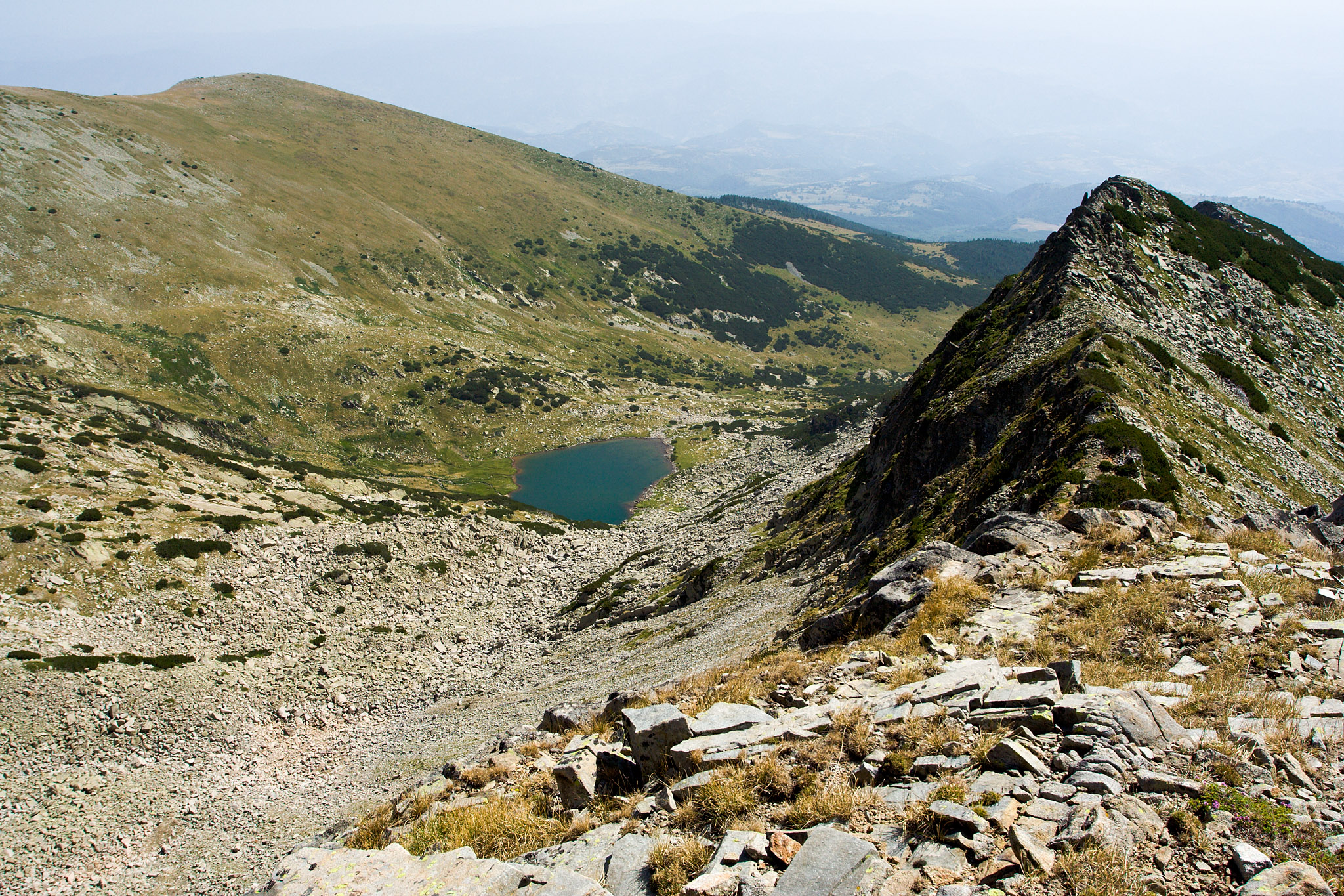 Sredno Breznishko ezero in Pirin mountain, Bulgaria